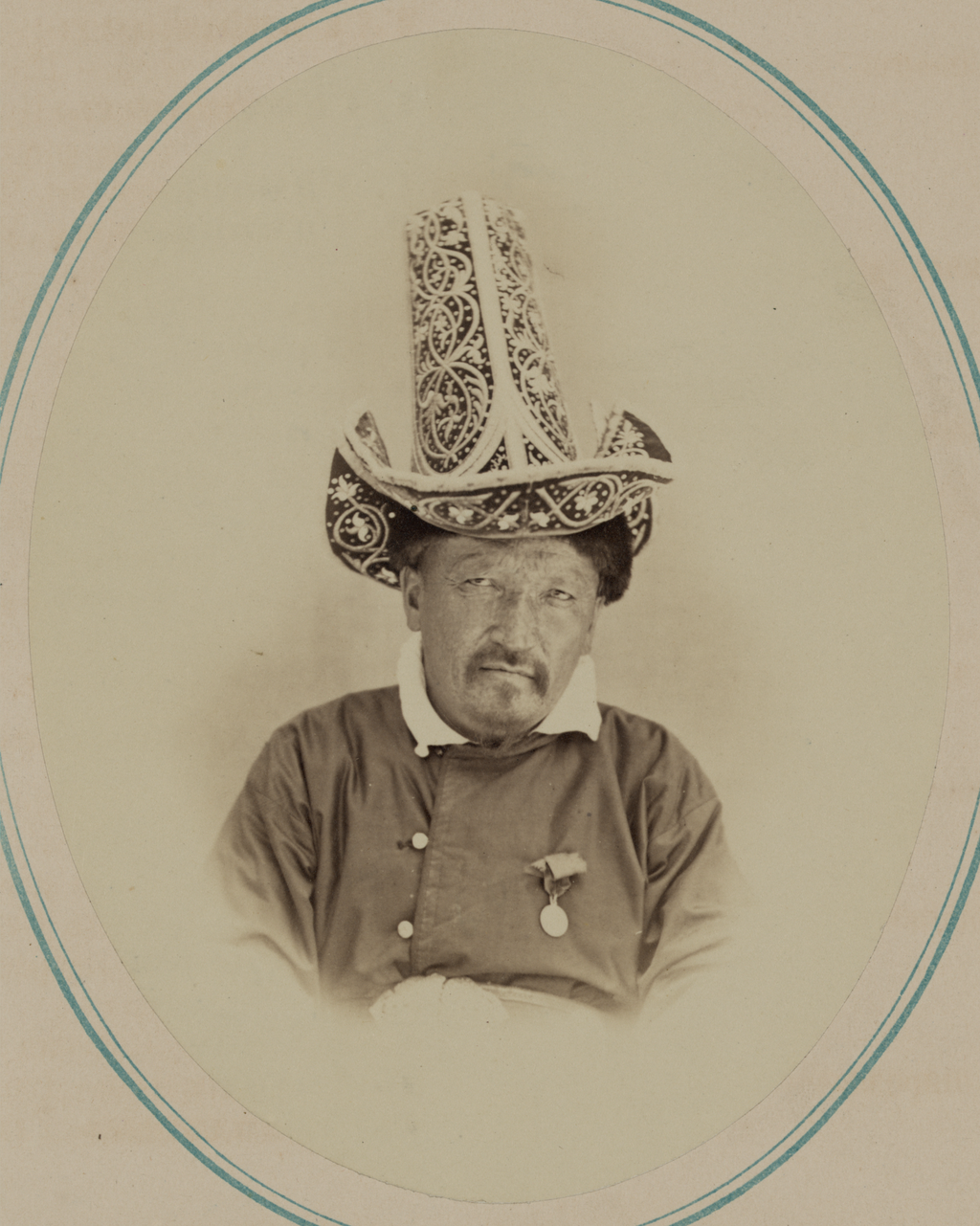 This photograph is from the ethnographical part of Turkestan Album, a comprehensive visual survey of Central Asia undertaken after imperial Russia assumed control of the region in the 1860s. Commissioned by General Konstantin Petrovich von Kaufman (1818–82), the first governor-general of Russian Turkestan, the album is in four parts spanning six volumes: “Archaeological Part” (two volumes); “Ethnographic Part” (two volumes); “Trades Part” (one volume); and “Historical Part” (one volume). The principal compiler was Russian Orientalist Aleksandr L. Kun, who was assisted by Nikolai V. Bogaevskii. The album contains some 1,200 photographs, along with architectural plans, watercolor drawings, and maps. The “Ethnographic Part” includes 491 individual photographs on 163 plates. The photographs show individuals representing the different peoples of the region (Plates 1–33); daily life and rituals (Plates 34–91); and views of villages and cities, street vendors, and commercial activities (Plates 92–163). Clothing and dress; Ethnographic photographs; Men; Photographic surveys; Portrait photographs; Portraits; Turkic peoples